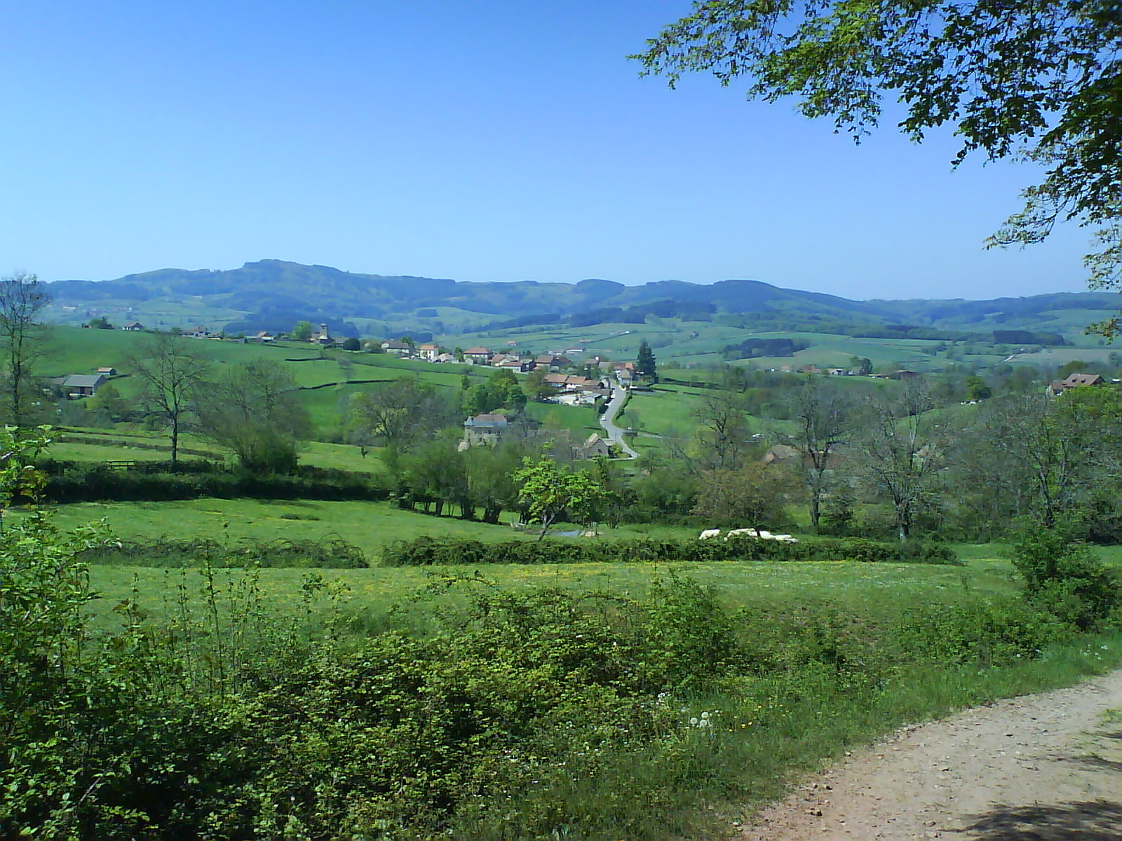 Photo of Buffières (71250 FRANCE)